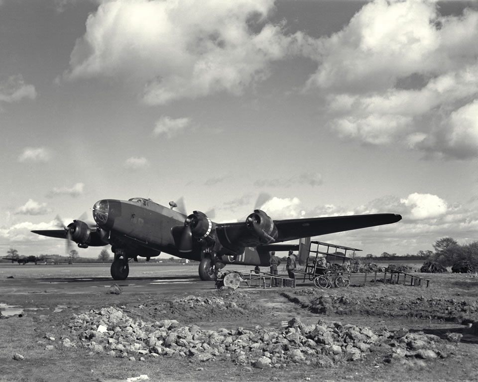 Halifax Bomber